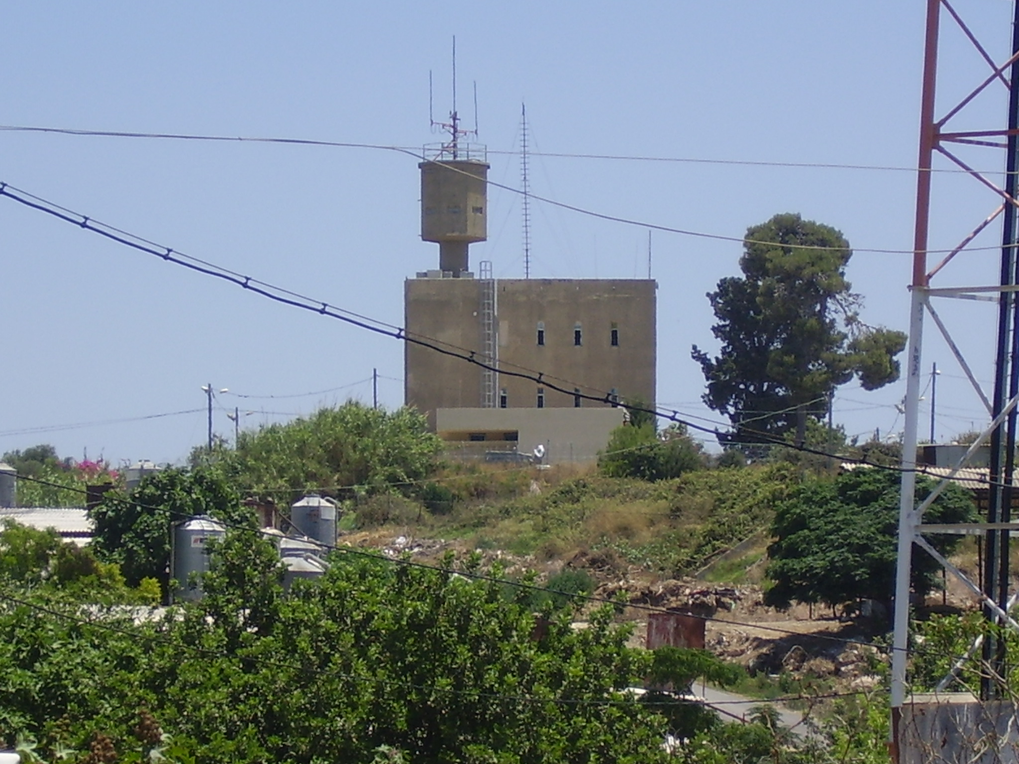 ya\'ara (basa) police station